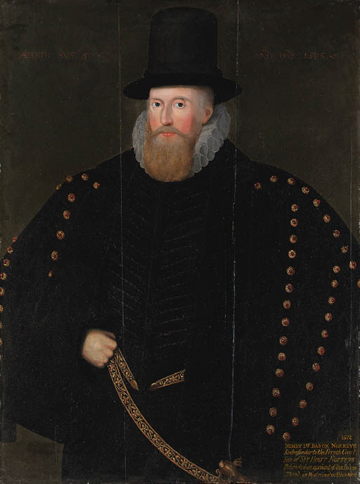 Portrait of Henry Norris or Norreys, 1st Baron Norris of Rycote